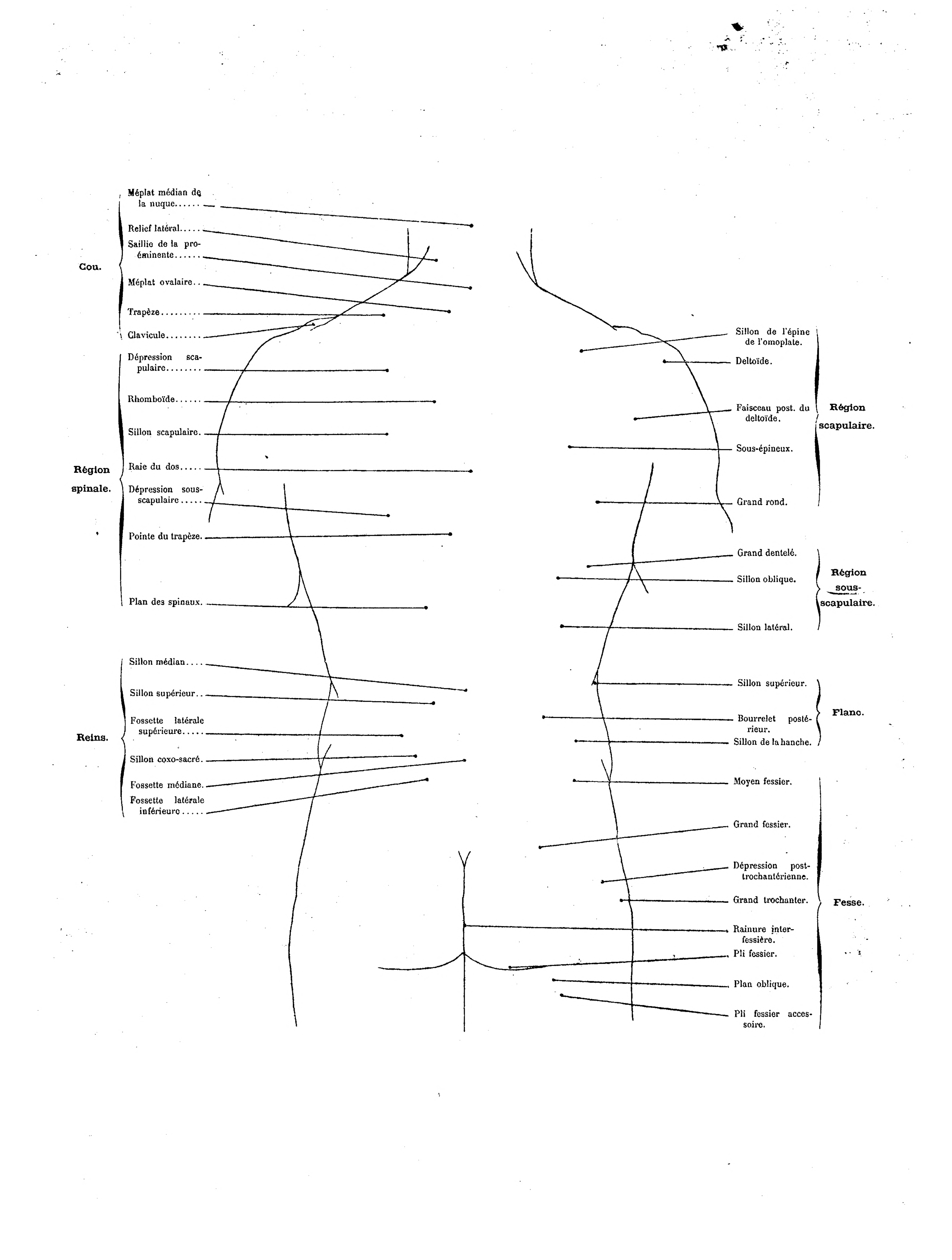 Illustration from Anatomie artistique by Paul Richer.